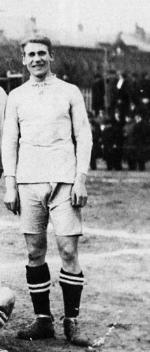 Swedish international footballer Karl "Köping" Gustafsson in 1913. In lineup before game against Russia, 4th of May.